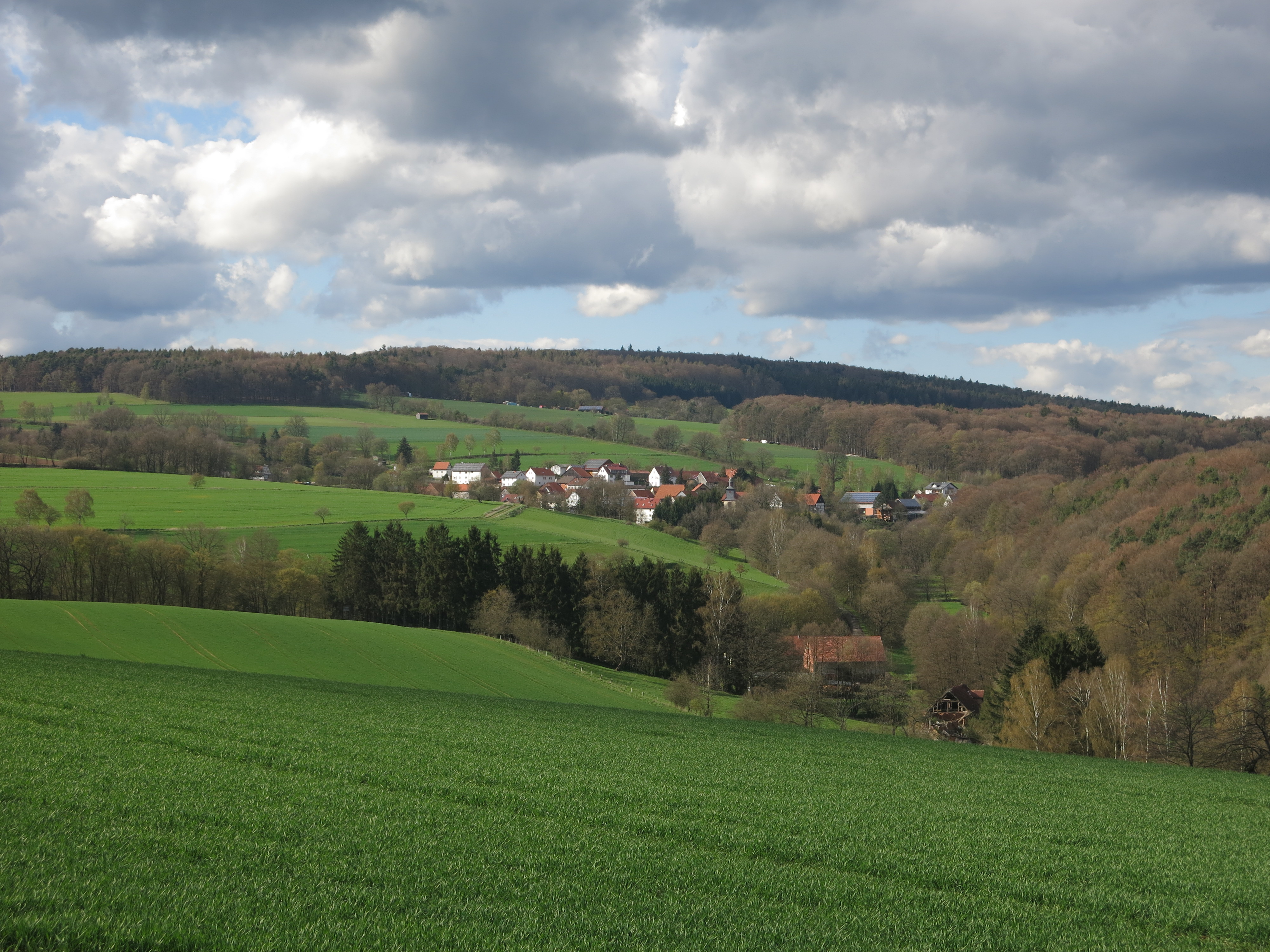 Near Haunetal: The village Kruspis and the mountain Mengshäuser Kuppe